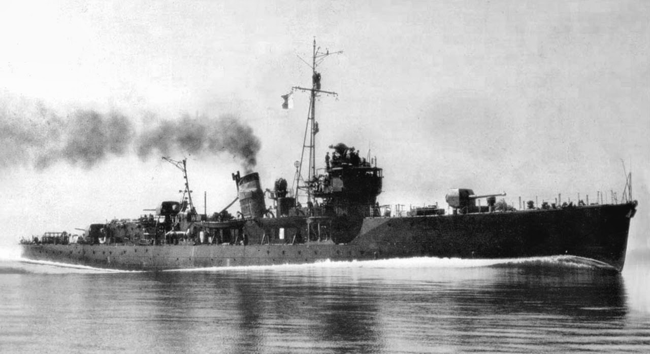 Japanese escort vessel "Shimushu" (Shimushu class), off Hibi trial run.